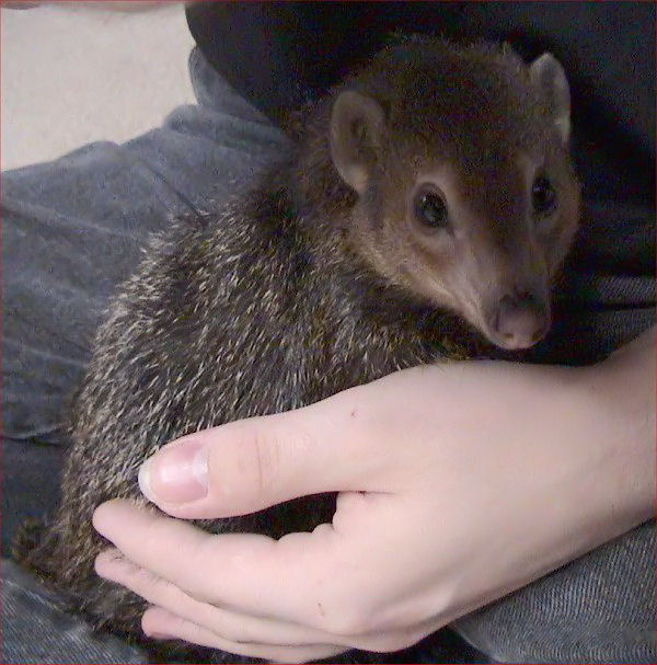 Photographer: Dawson